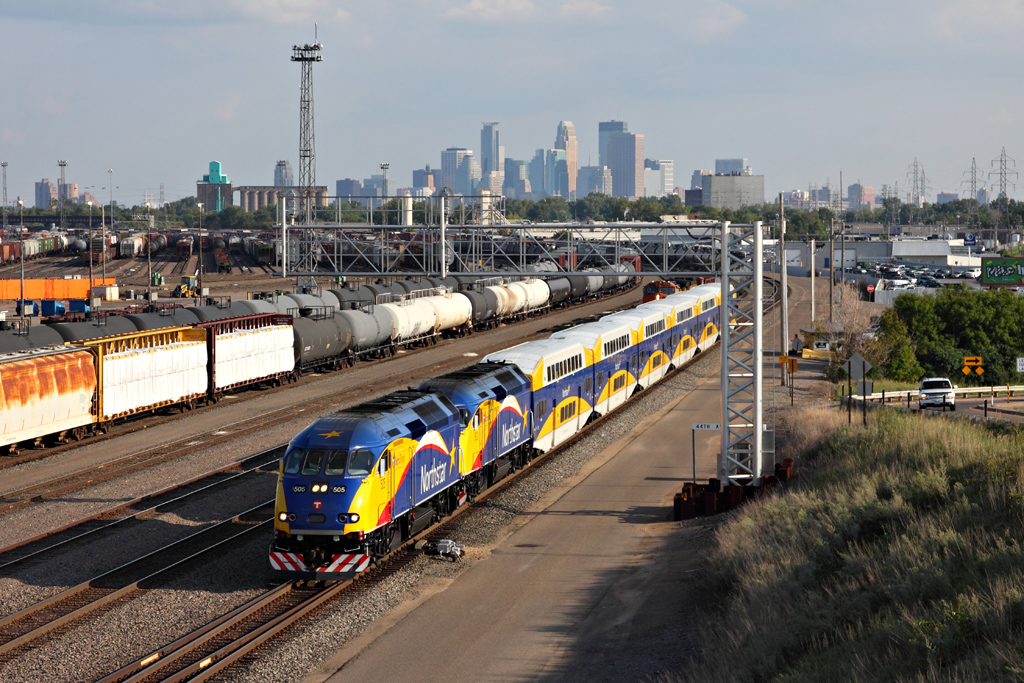 Two MPI MP36PH-3C locomotives lead a six-car Northstar commuter train through BNSF's Northtown Yard with the Minneapolis skyline behind.